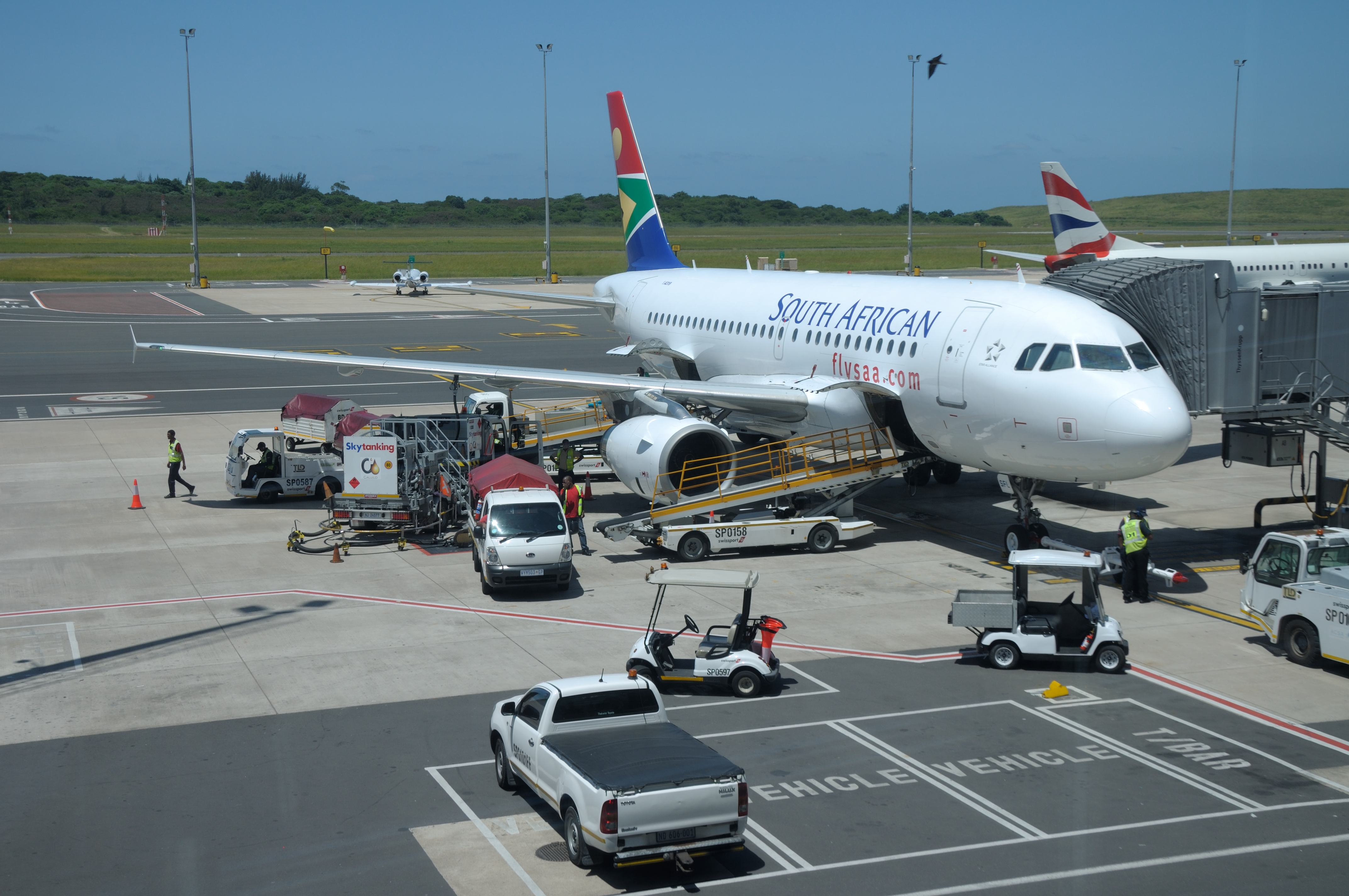 South Africa, spotting at King Shaka International Airport in Durban